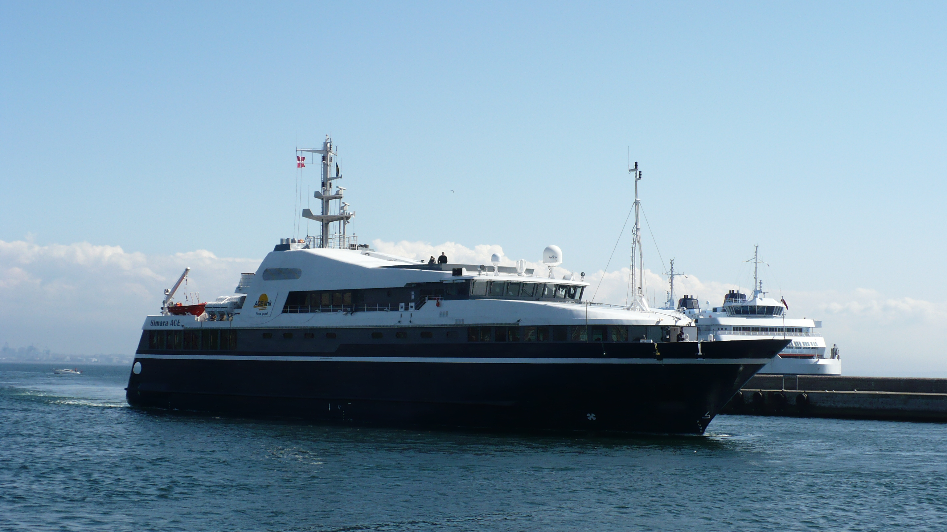 A ship, SIMARA ACE coming to dock at Helsingborg, Denmark IMO Number: 9295103 MMSI Number: 265603030 Callsign: SDBV Length: 61 m Beam: 12 m